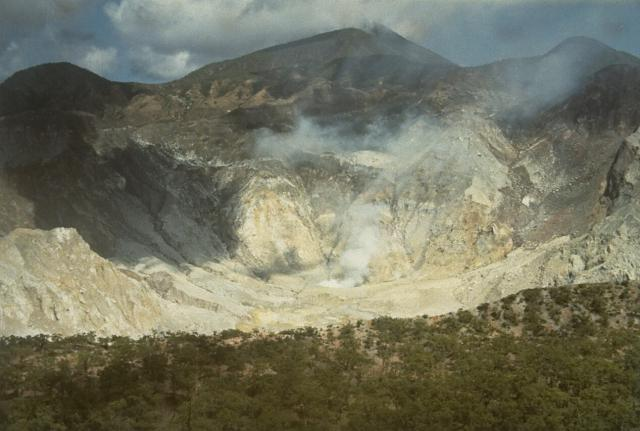 The steaming summit caldera of Gunung Sirung volcano is seen here from the eastern caldera rim. Sirung volcano lies at the NE end of a 14-km-long line of volcanic centers forming a peninsula at the southern end of Pantar Island. A lava dome (center) at the western side of the caldera forms the summit of Gunung Sirung volcano; other cones along the chain to the SE increase in height. The 2-km-wide summit caldera has been the source of small phreatic eruptions during the 20th century.